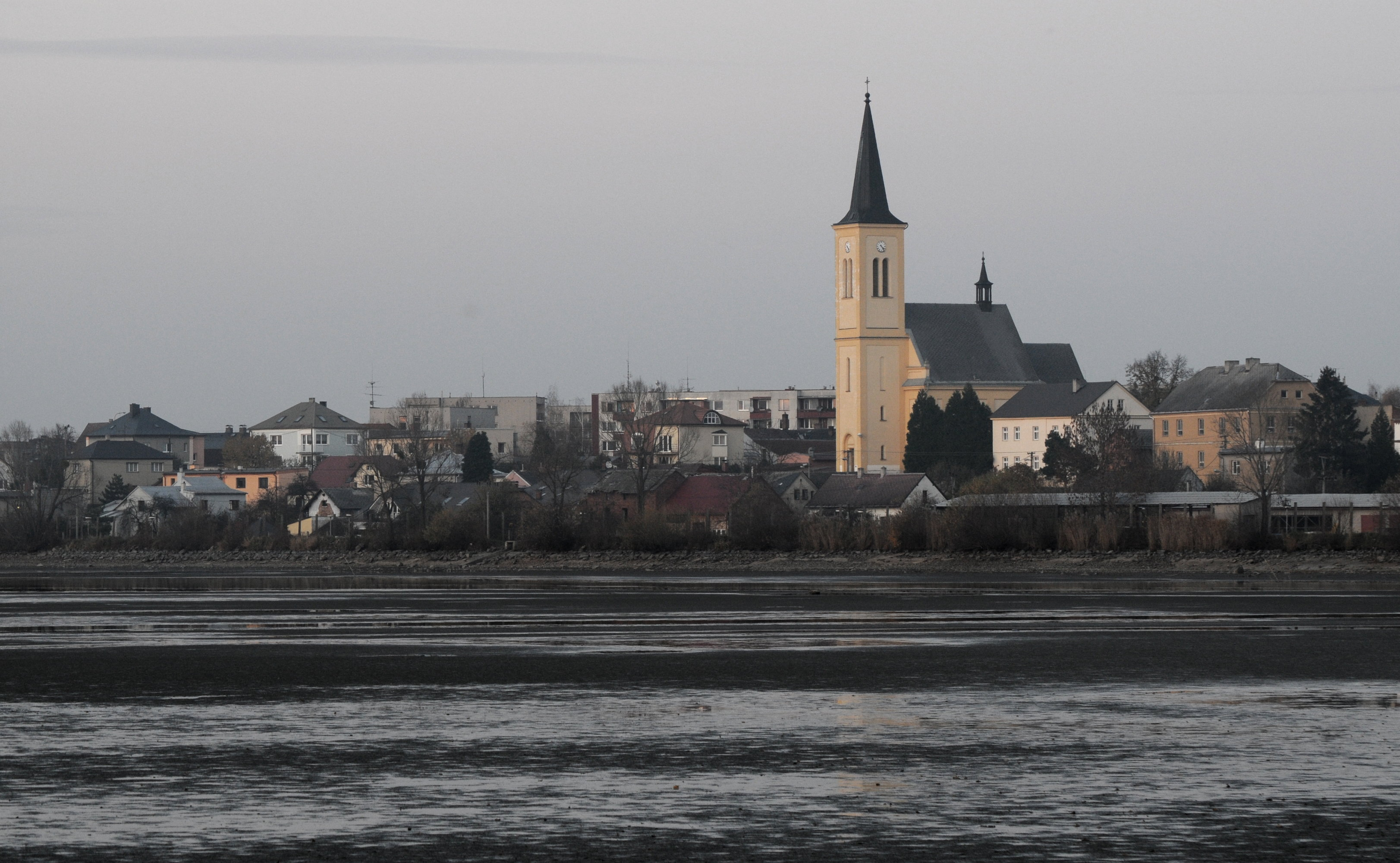 Dolní Benešov over the Nezmar fishpond